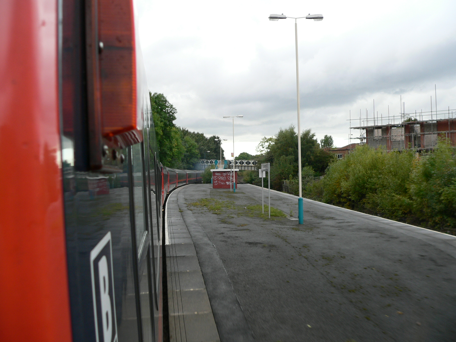 A view of Dunston railway station from the rear of Coach B on a GNER Intercity 125 service along the Tyne Valley Line between Newcaslte upon Tyne and Carlisle.